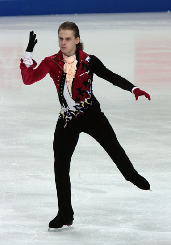 2009 European Figure Skating Championships - Sergei Voronov